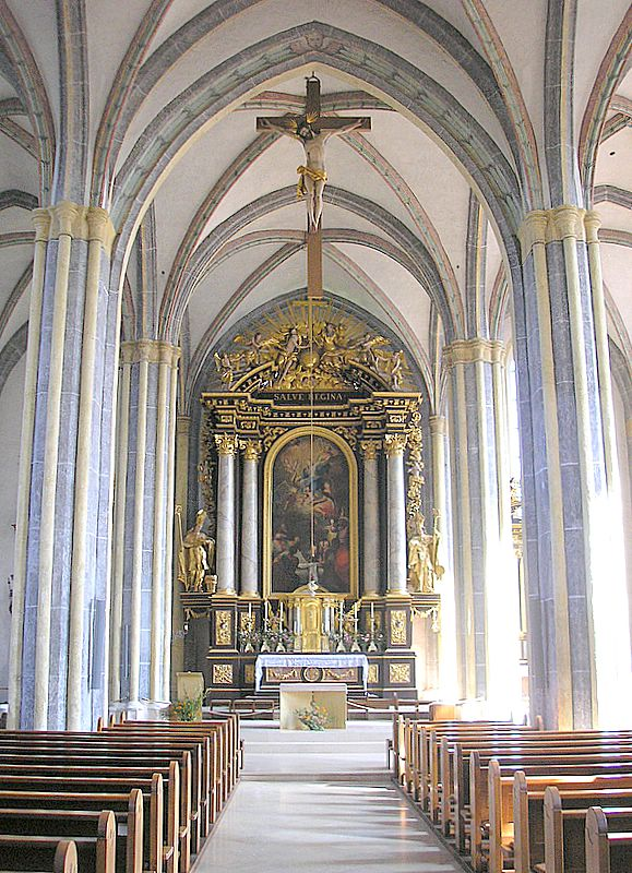 Parish and collegiate church of Our Lady (Laufen an der Salzach, Landkreis Berchtesgadener Land, Upper Bavaria, Germany). Interior. looking east